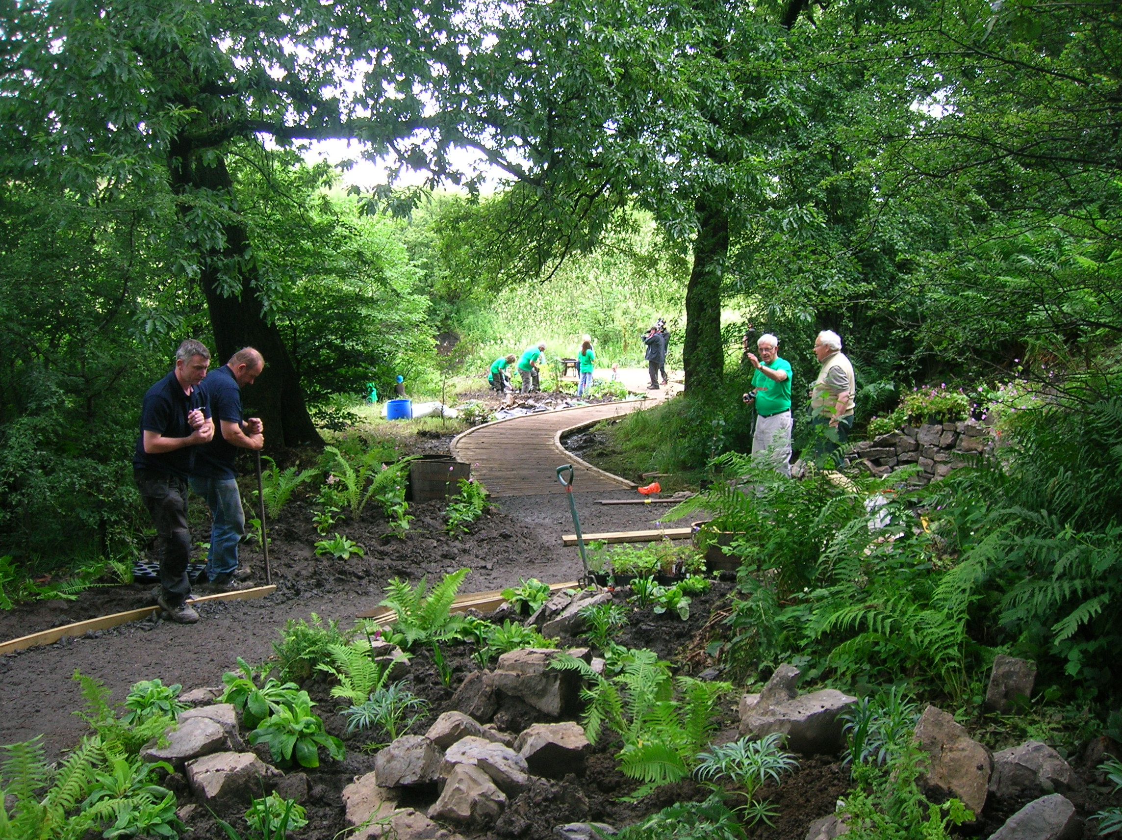 The Vale View Garden on the Beechgrove Garden filming day, July 20th 2012, Barrmill, North Ayrshire, Scotland